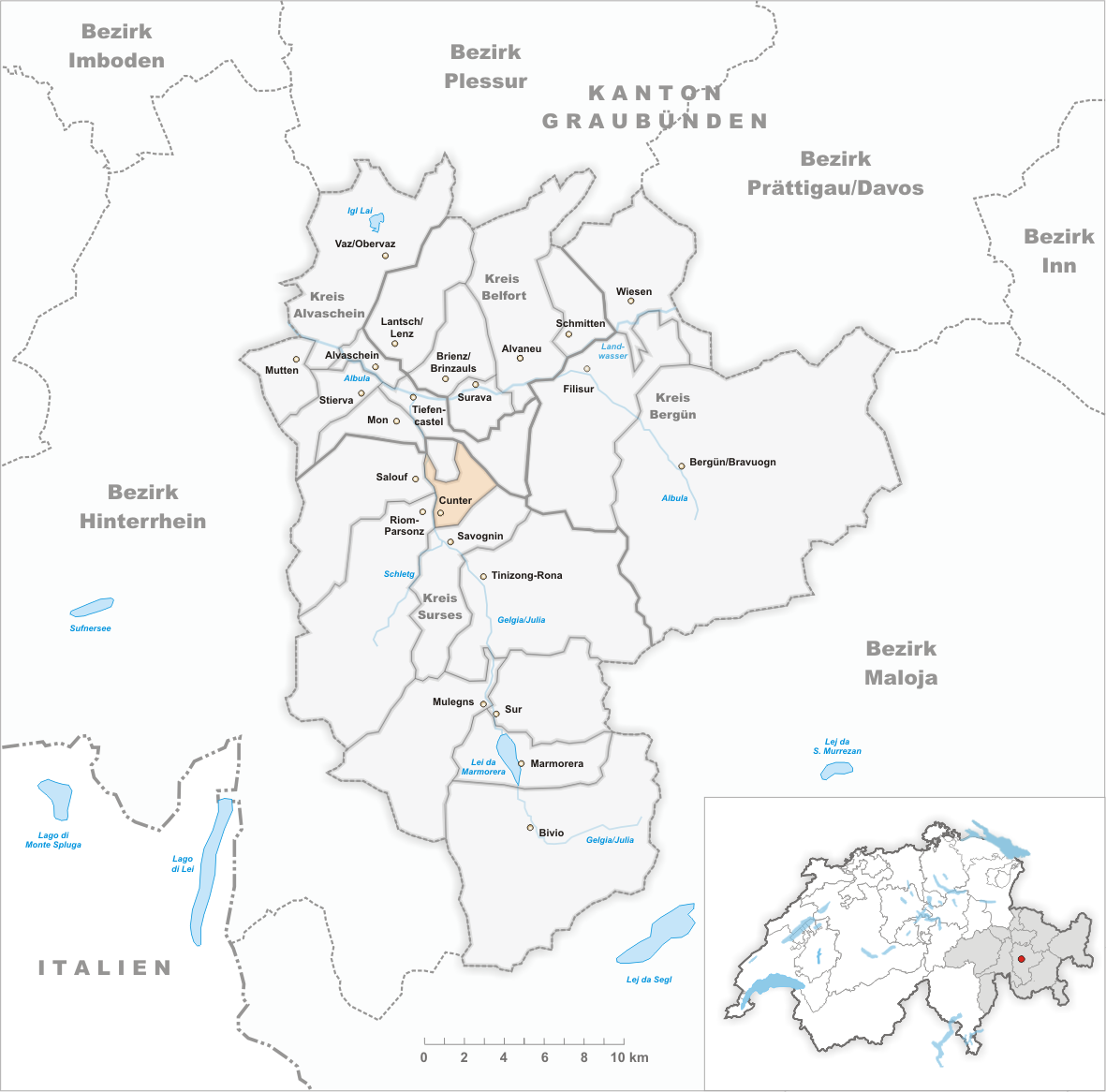 Municipality Cunter